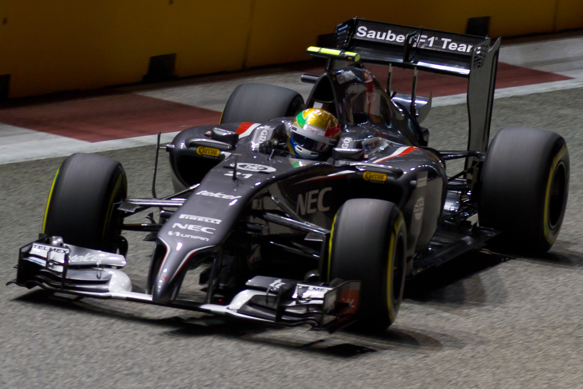 Formula One 2014 Rd.14 Singapore GP: Esteban Gutiérrez (Sauber)